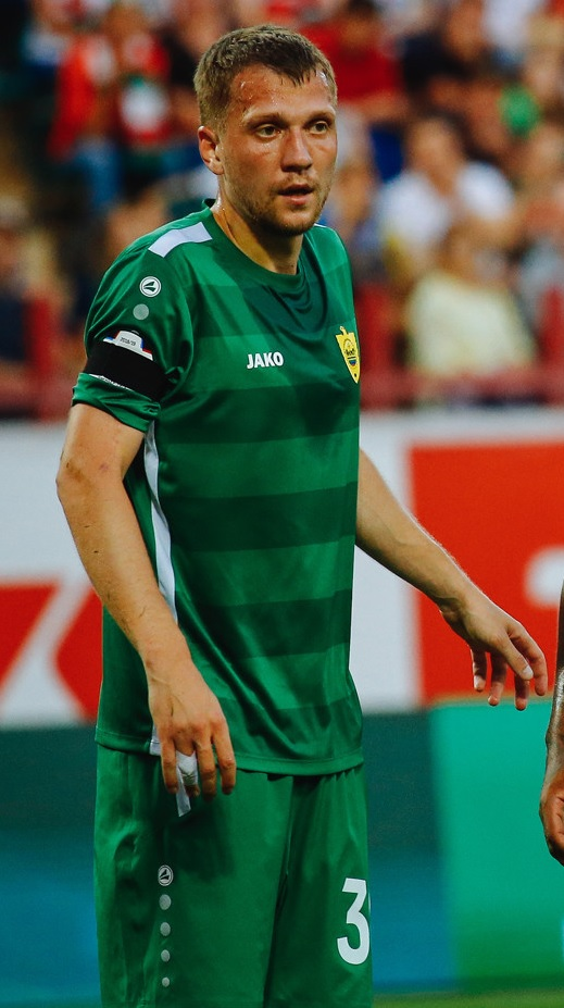 Yevgeny Gapon with FC Anzhi Makhachkala in a game against FC Lokomotiv Moscow.